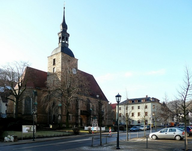 This image shows the St.-Wolfgang-church in Glashütte.